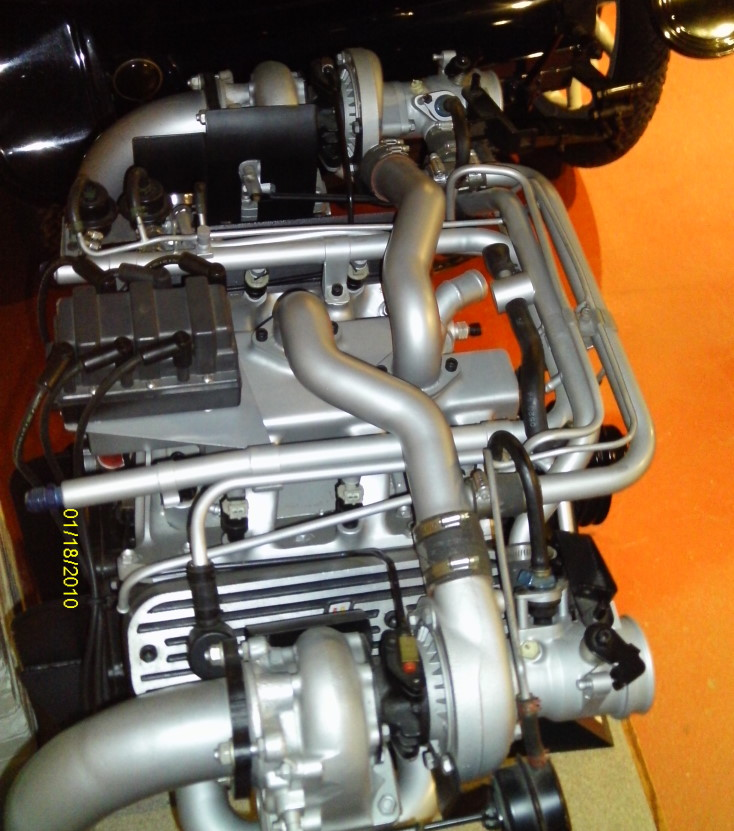 1983 Buick Indy Indianapolis 500 Pace Car twin turbo Engine V-6 V6 in the Sloan Museum and Buick Automotive Gallery and Research Center at Flint, Michigan